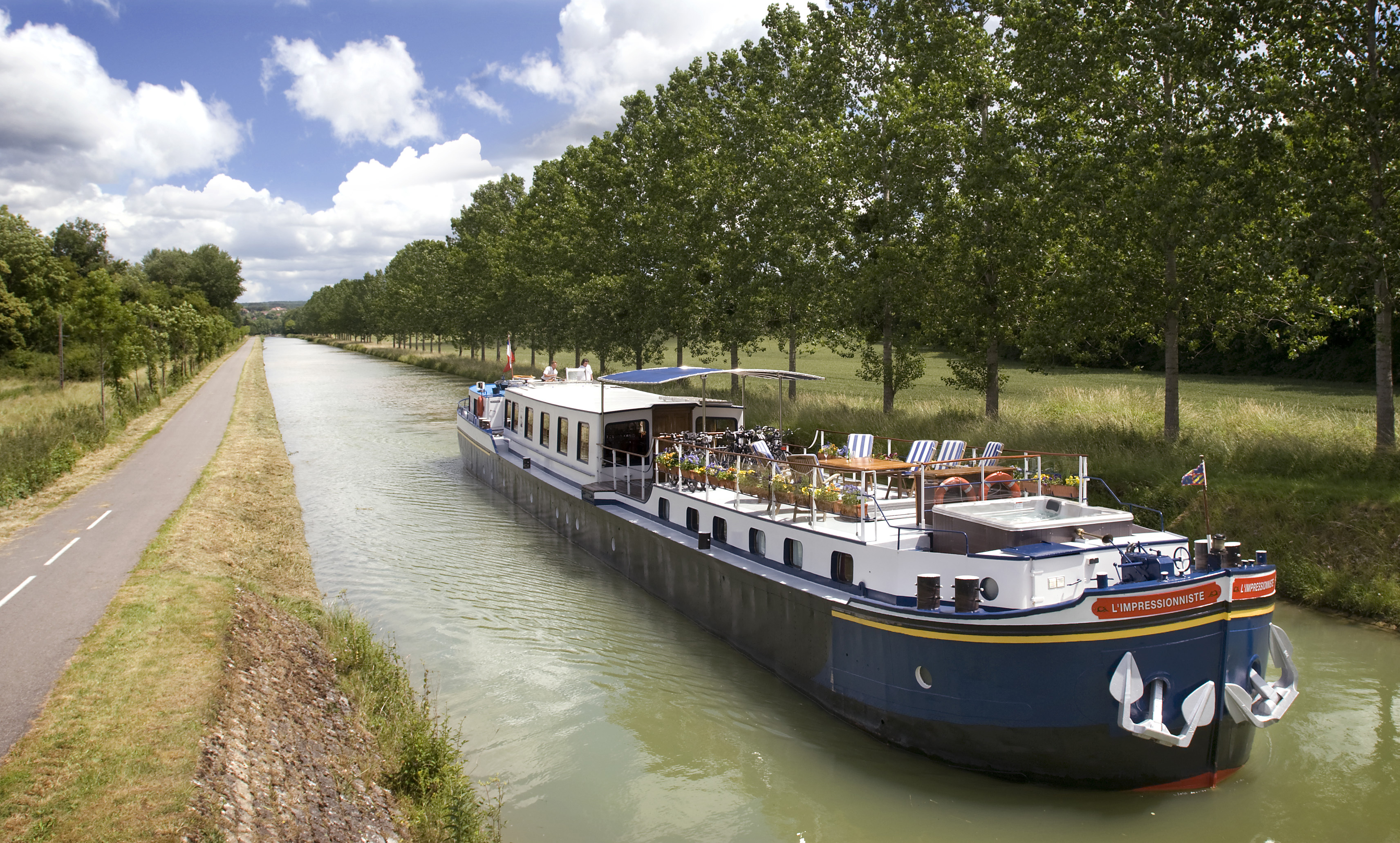 The Hotel Barge L'Impressionniste Cruising On The Burgundy Canal